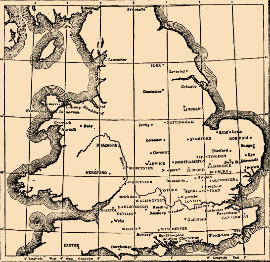 Illustration from Brockhaus and Efron Jewish Encyclopedia (1906—1913)